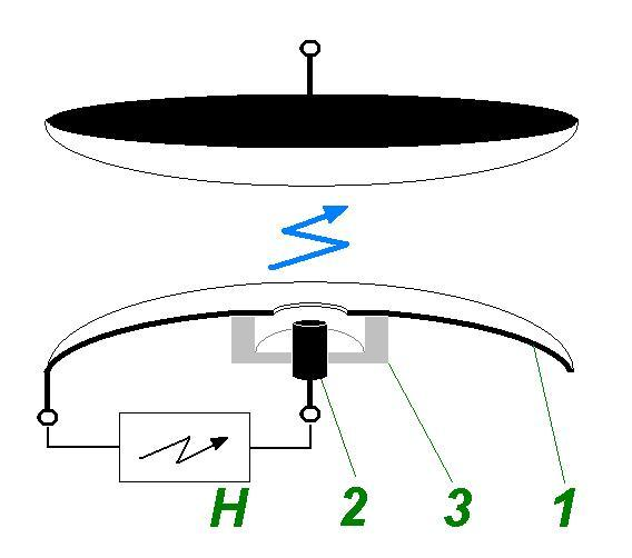 Schaltfunkenstrecke / switching spark gap 1 - main electrode of the spark gap 2 - ignition electrode 3 - insulator H - trigger pulse generator blue flash - main discharge